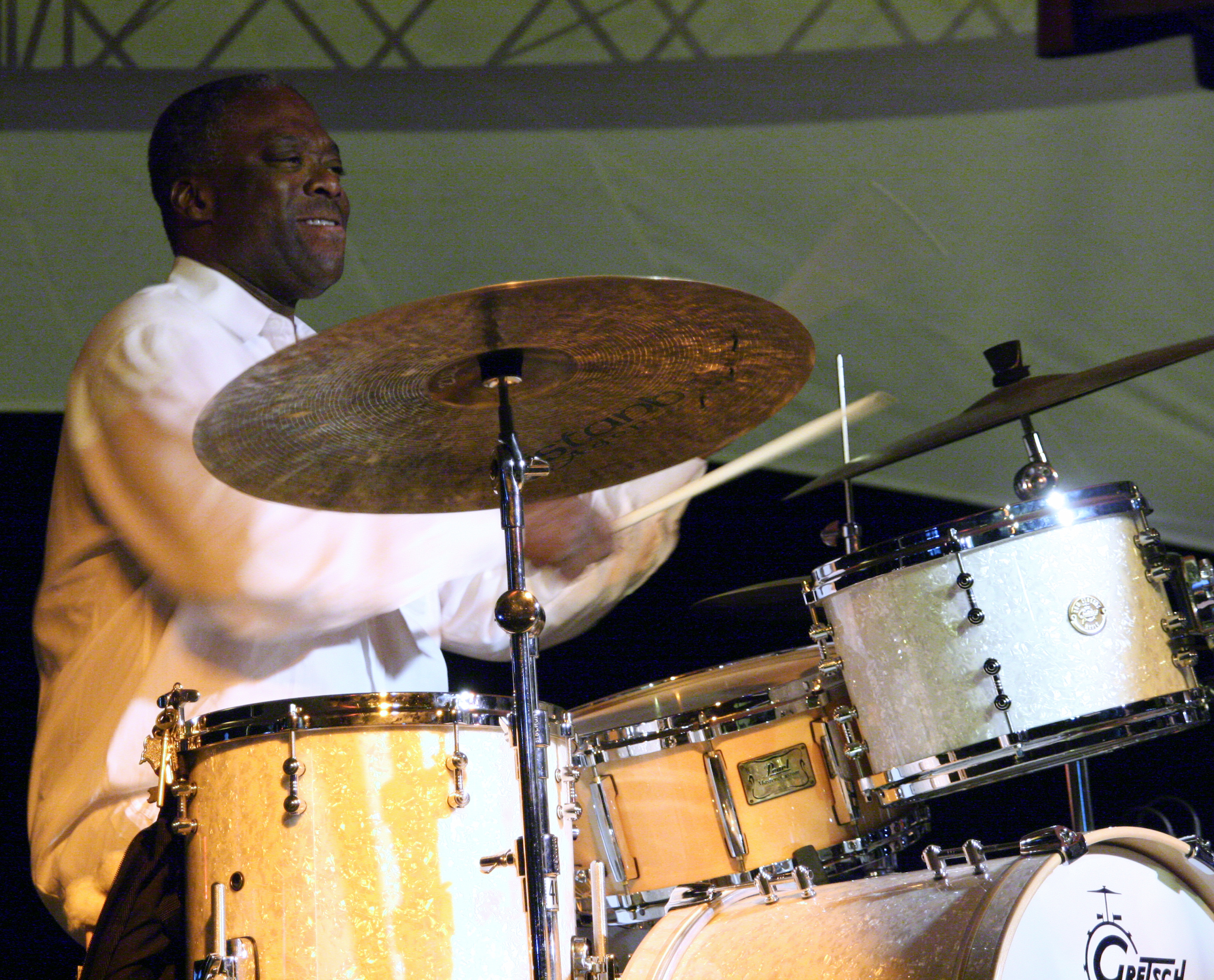 Steve Williams, jazz drummer. Performance with Bob Mover Quintet at 2008 Ghent Jazz Festival.